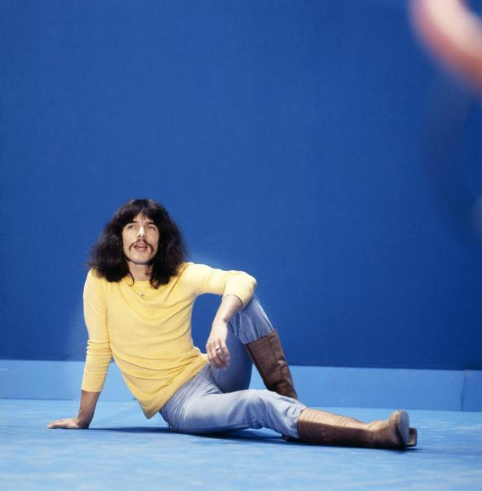 SFA007005433 Fotograaf: Harry Pot